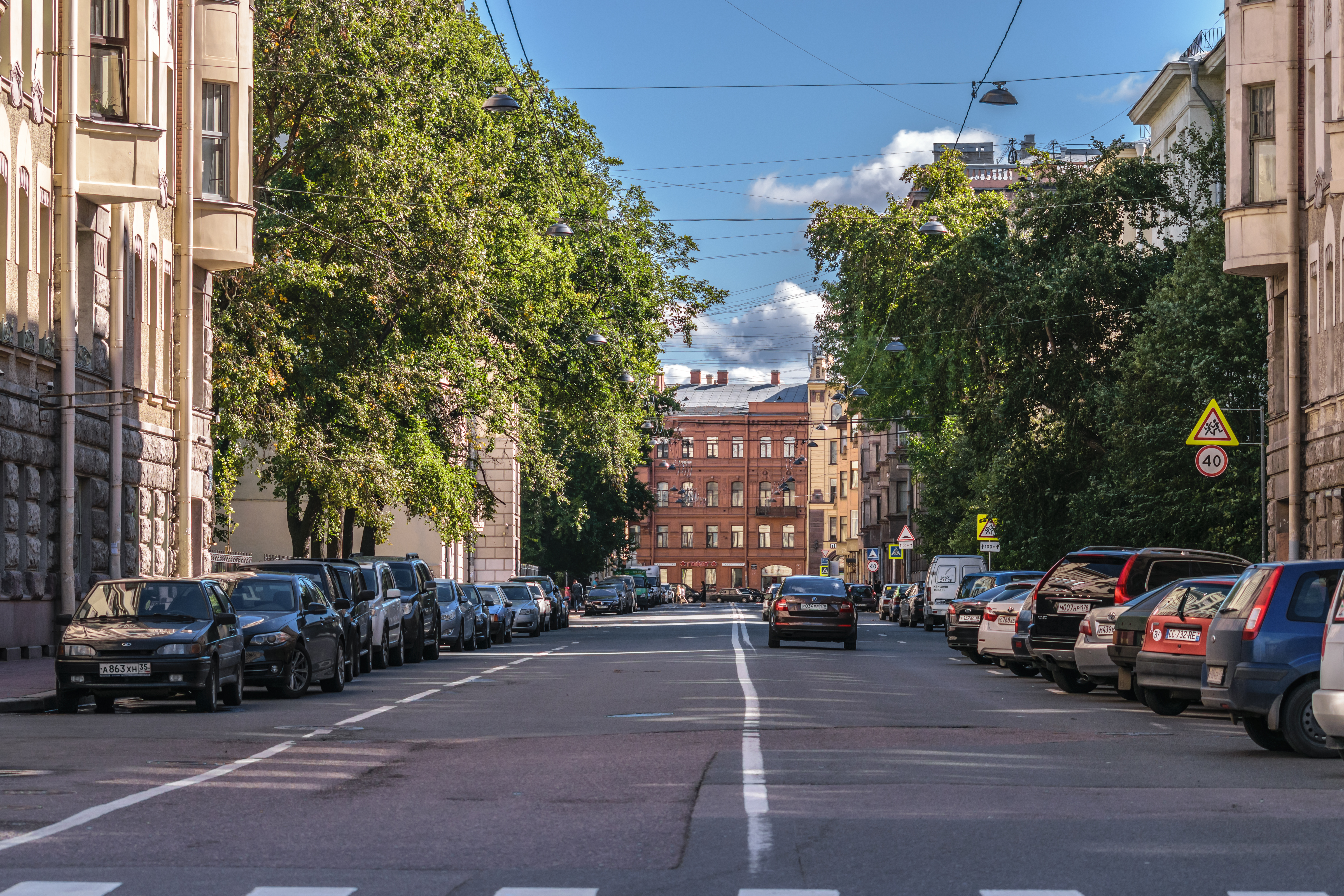 Borodinskaya Street in Saint Petersburg